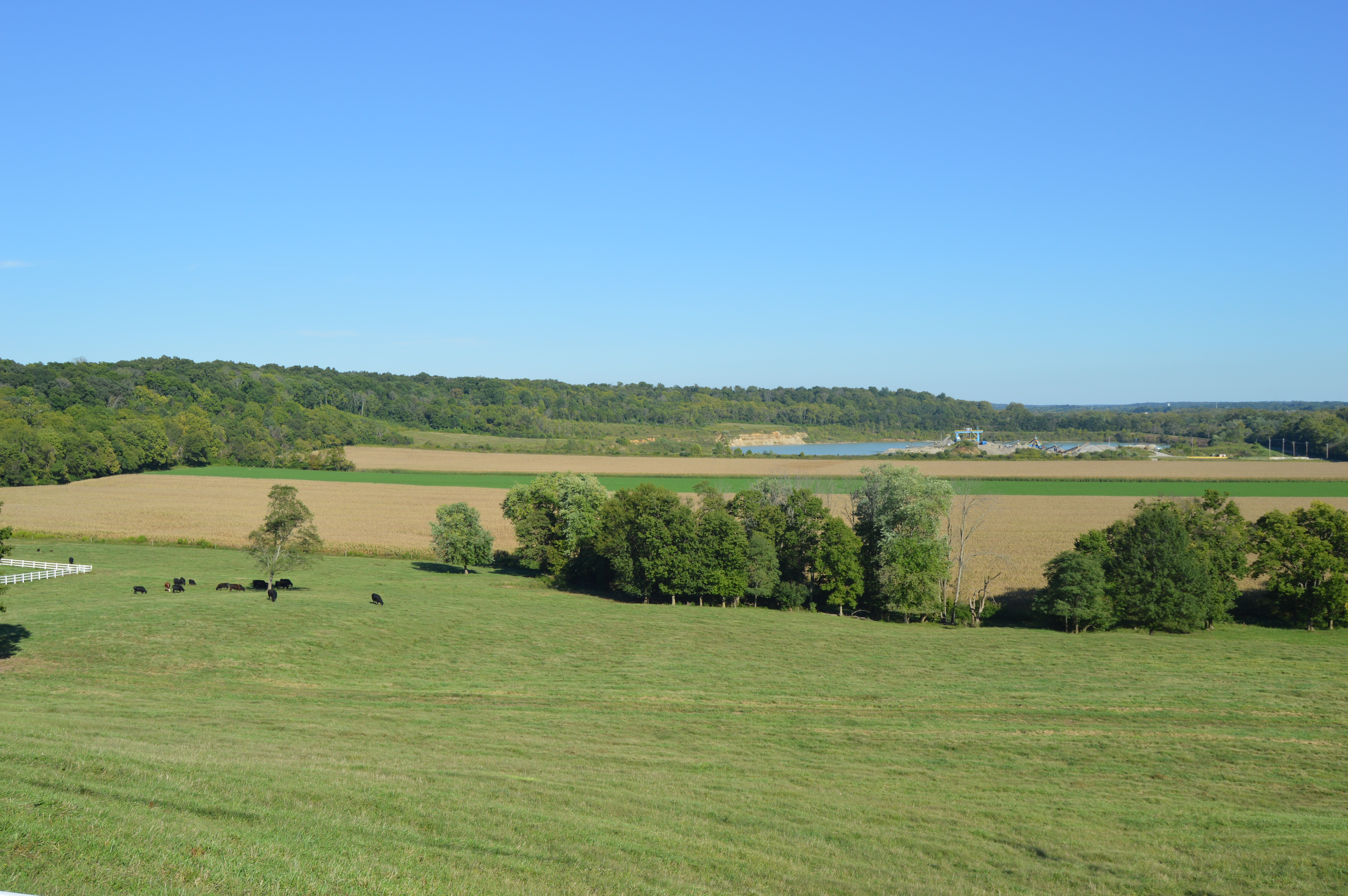 Looking down from Shawhan Road over fields just east of South Lebanon in Union Township, Warren County, Ohio, United States.